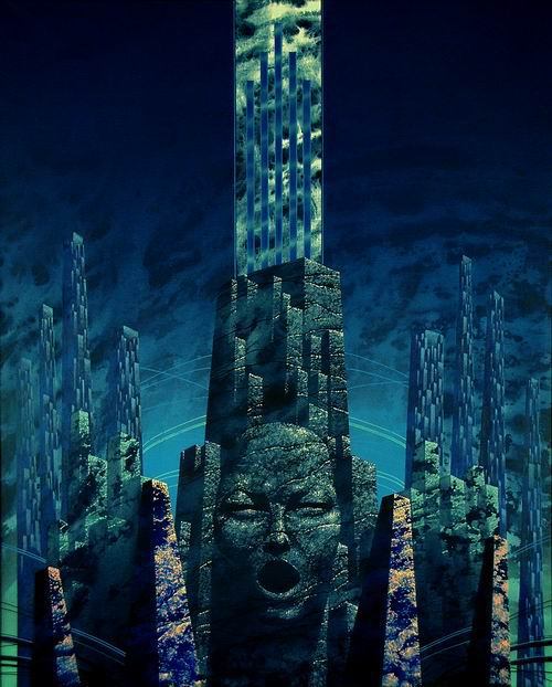 Miguel Cerejido "Requiem" 1998